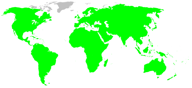 Araneidae habitat distribution, drawn after Platnick: World Spider Catalog 7.0. This is not a precise rendering of the distribution! If you have better information, please replace this map, or send me the info, and i will redraw it.